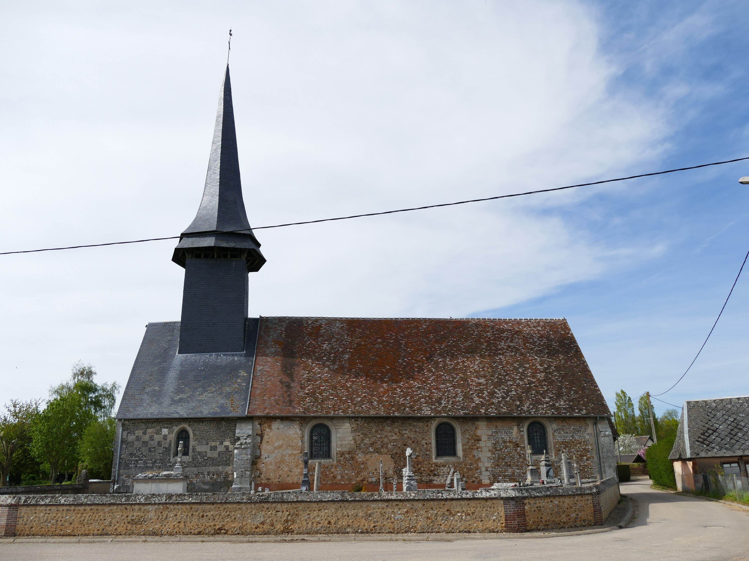 Our Lady's church in Orvaux (Eure, Normandie, France).